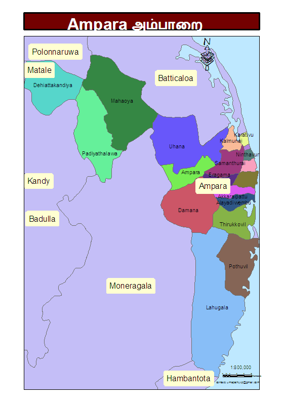 This is a picture of Mannar District, Sri Lanka